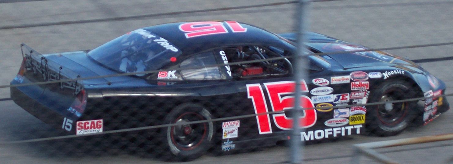 The American Speed Association Midwest Tour car for Brett Moffitt.